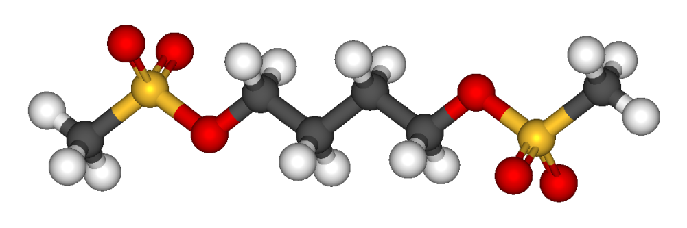 Ball-and-stick model of busulfan. Created using Accelrys DS Visualizer Pro 1.6 and GIMP.